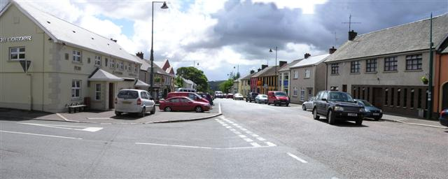 Main Street, Carrickmore, Co. Tyrone The road heads south-east towards Pomeroy. More at